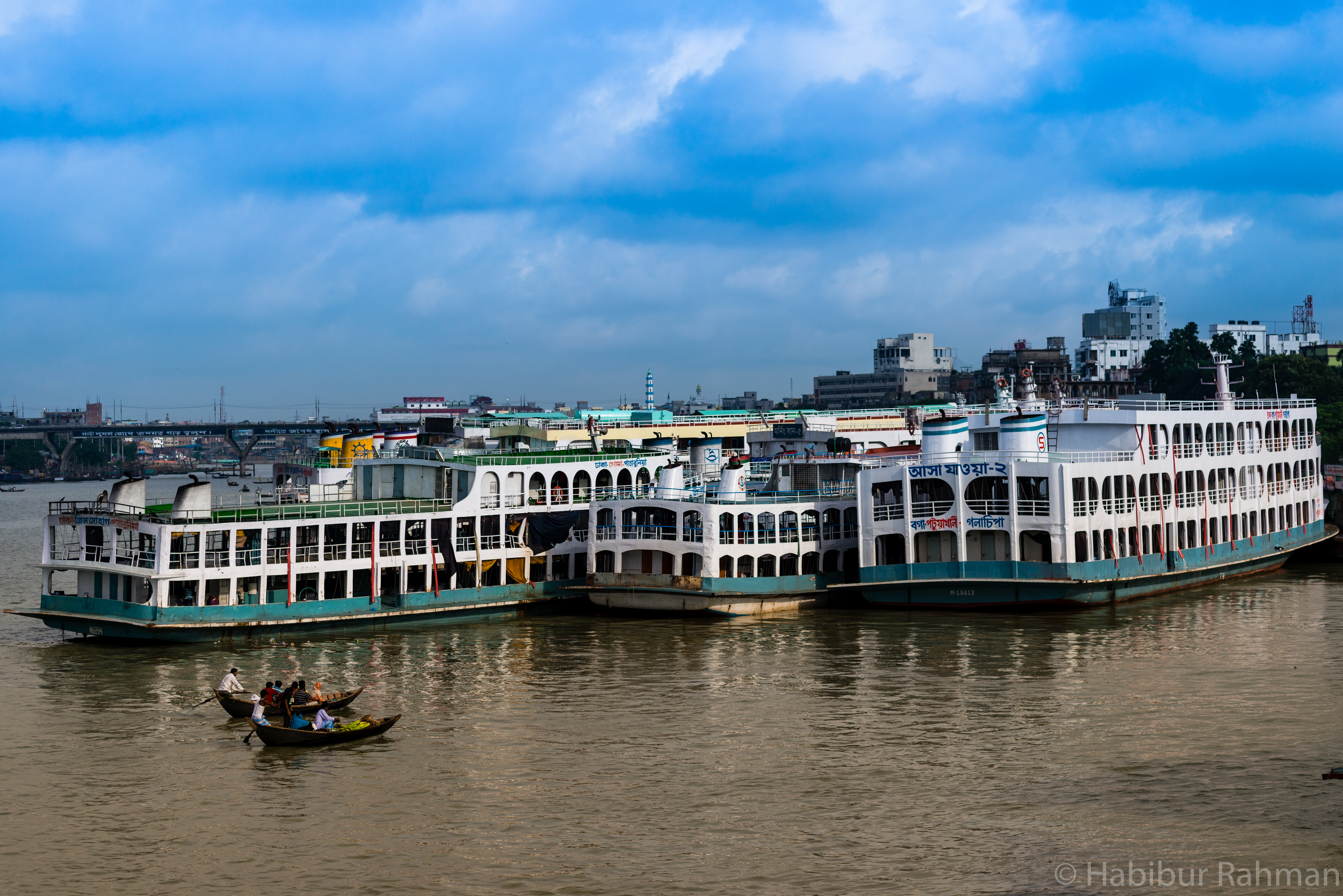 This picture is taken in June 2017.